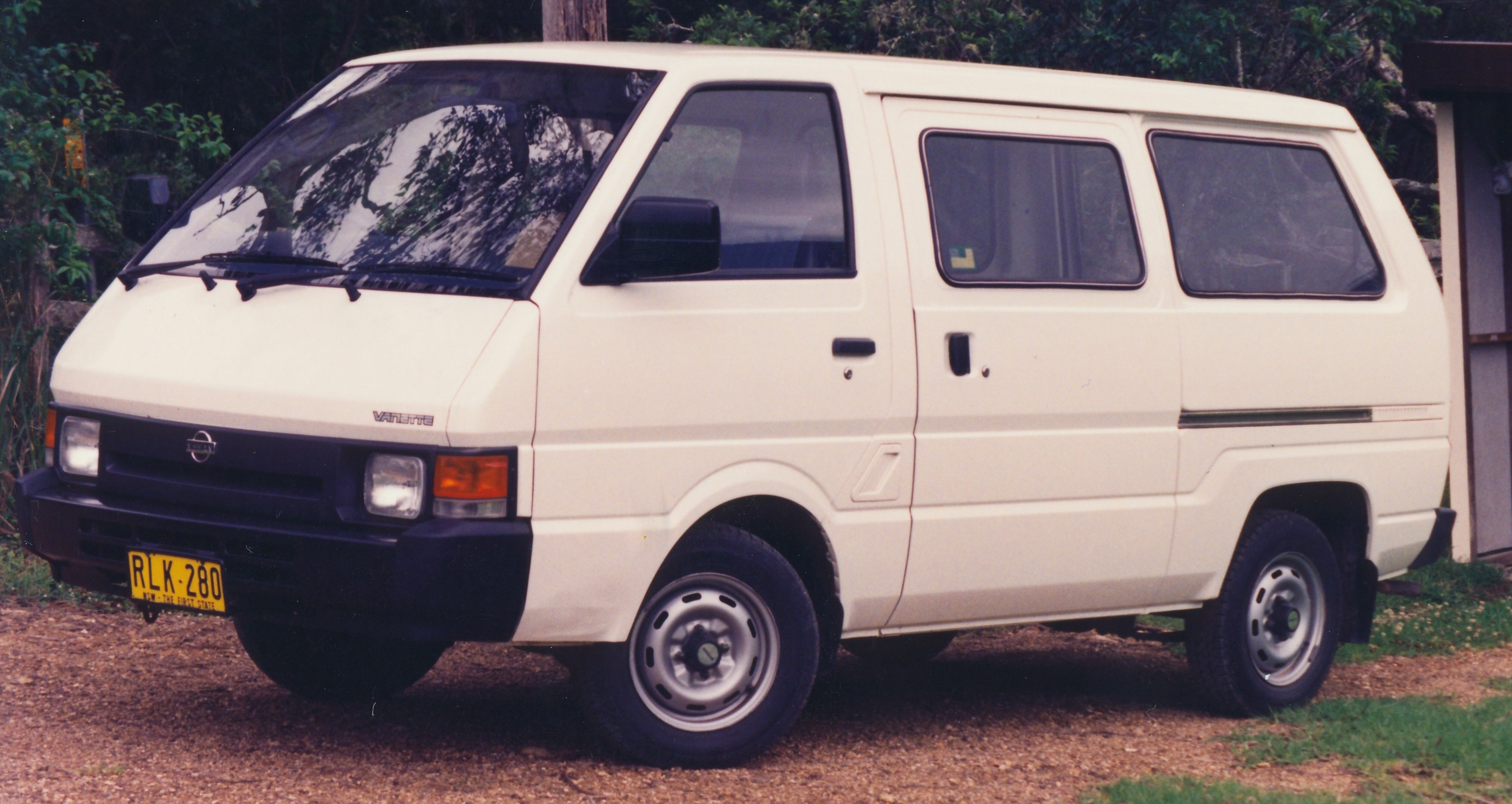 This image is a scan of a 35mm print taken of his Nissan Vanette in 1992